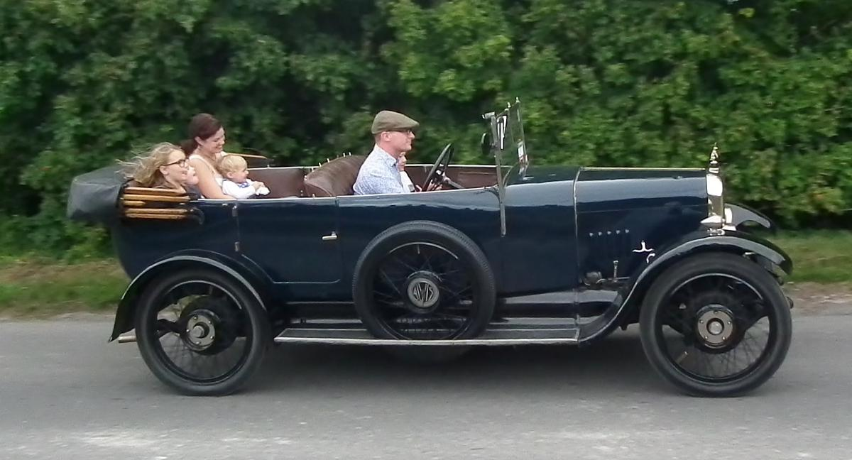 Alvis 12/50 SB 1496cc HP 8835 1924 5-seater tourer body by Cross & Ellis first registered 26 June 1924